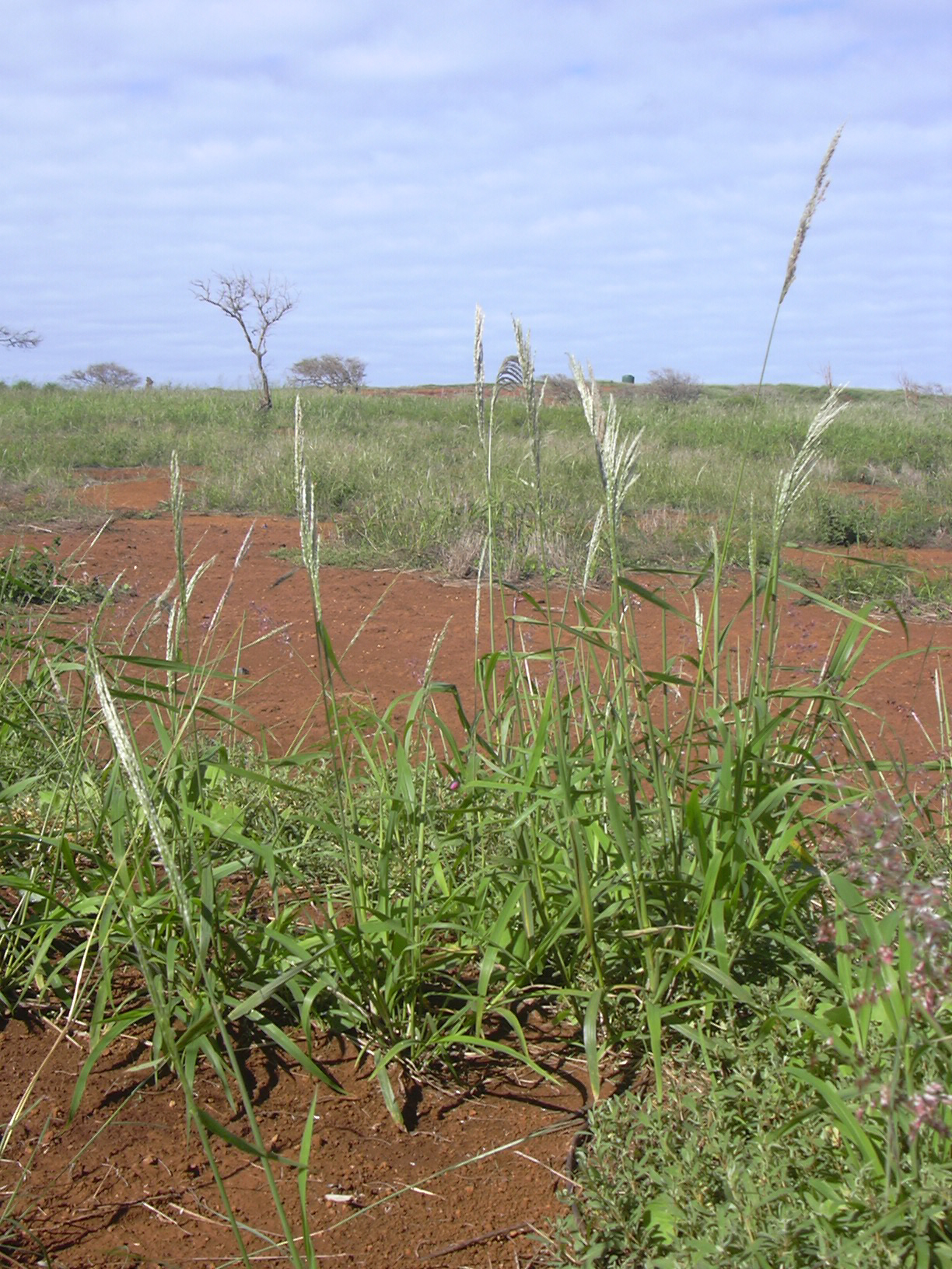 Digitaria insularis (habit). Location: Kahoolawe, Lua Makika